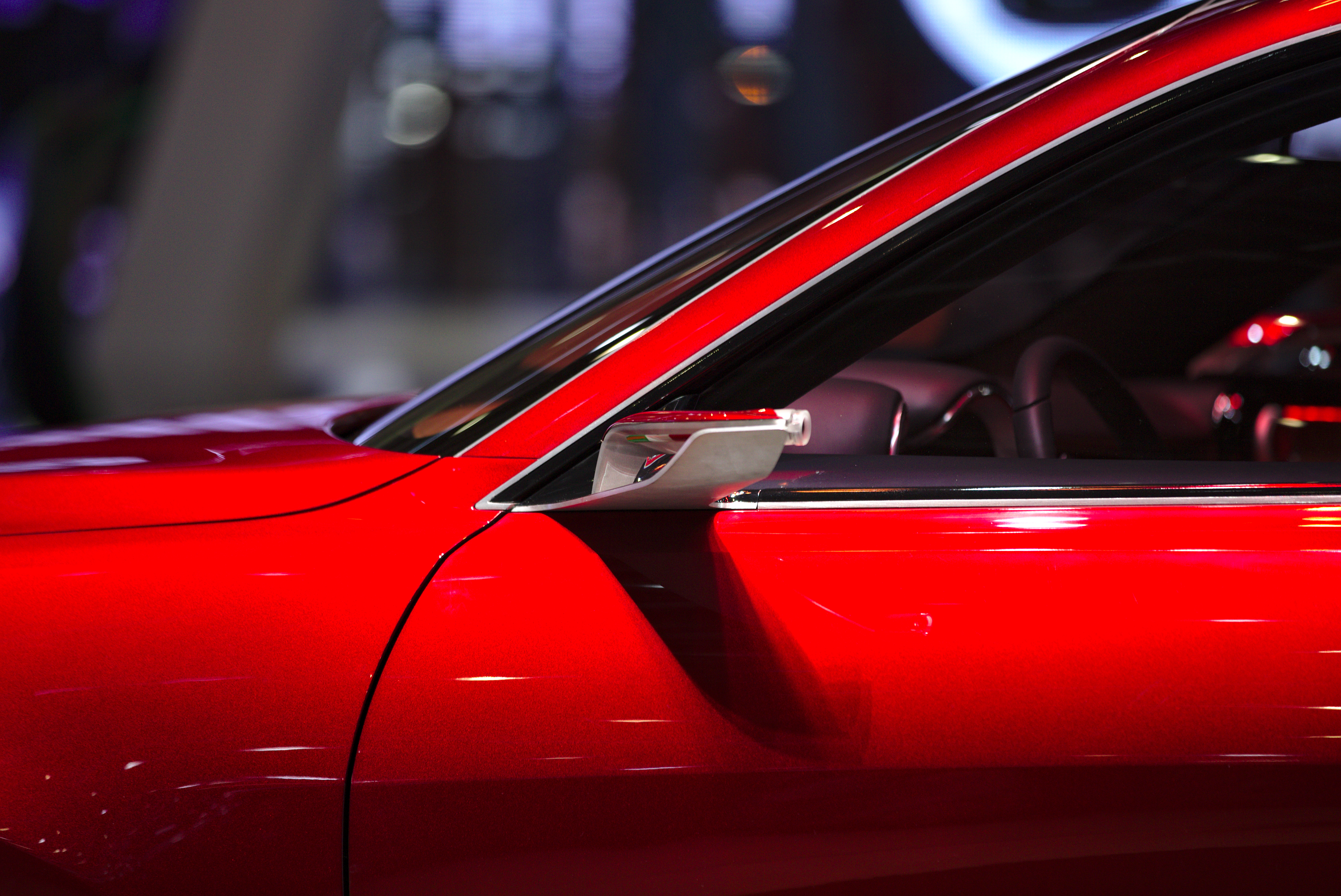 Alfa Romeo Tonale Concept at Geneva Motorshow 2019